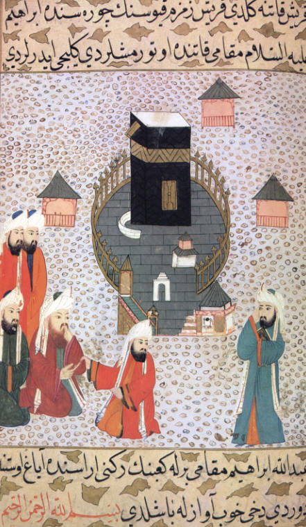 Siyer-I Nebi or Life of the Prophet. Ibn Masud, one of the early converts to Islam, recites Koran and gets the wrath of hostile Meccans